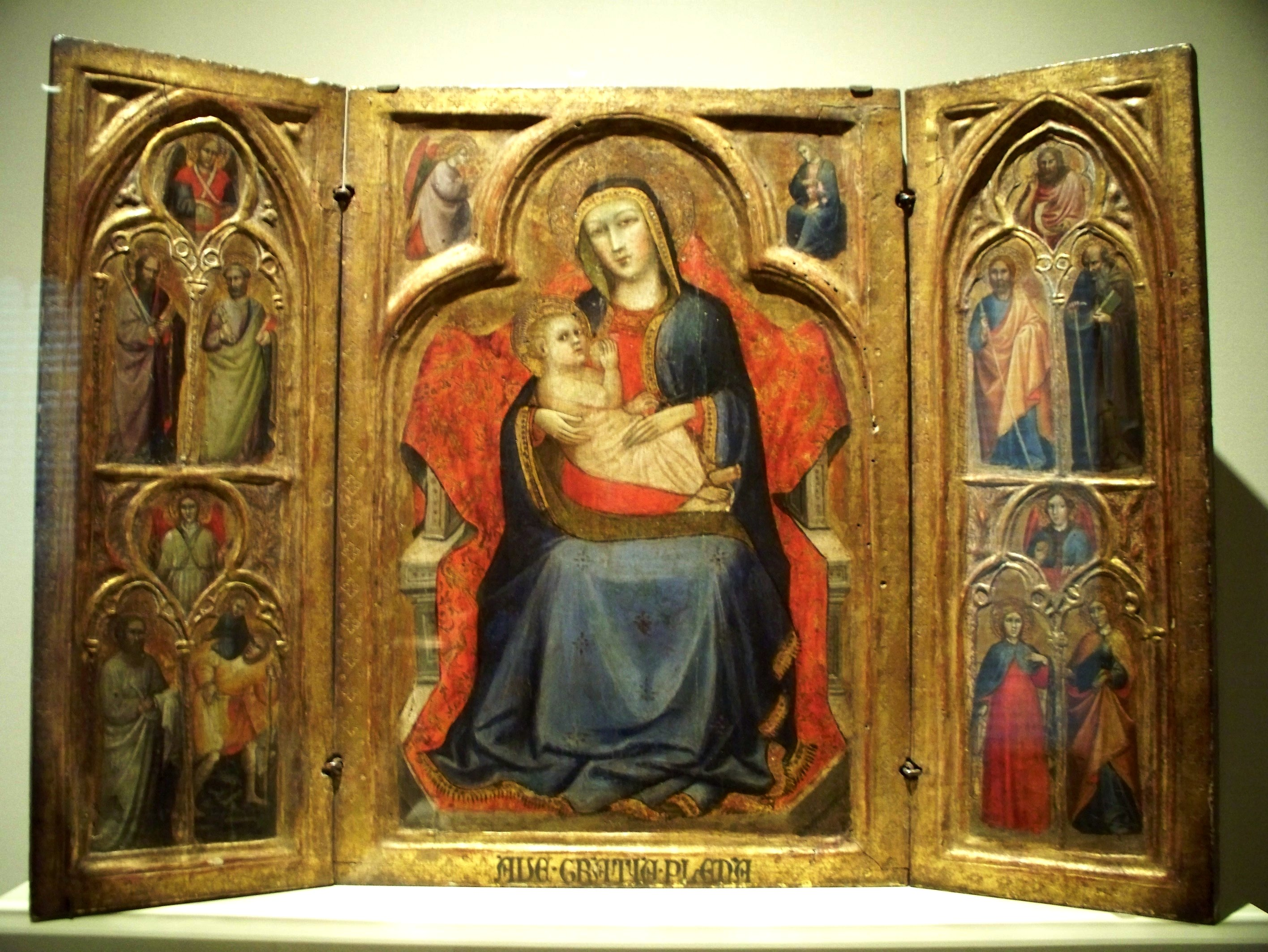 Triptych with the Madonna and Nursing Child with Saints Anonymous Master (Carlo da Camerino?) Early fifteeth century Tempera on panel, central panel, 45.7 x 32.4 cm.; wings (each), 45.7 x 16.5 cm. Taft Museum of Art, Jane Taft Ingalls Bequest, 1962 1962.10 Wikipedia Loves Art at the Taft Museum of Art This photo of item # 1962.10 at the Taft Museum of Art was contributed under the team name "Opal_Art_Seekers_4" as part of the Wikipedia Loves Art project in February 2009. Taft Museum of Art The original photograph on Flickr was taken by Forever Wiser—please add a comment to the original Flickr page whenever a use has been made on Wikipedia or another project. Project galleries on Flickr: this institution, this team